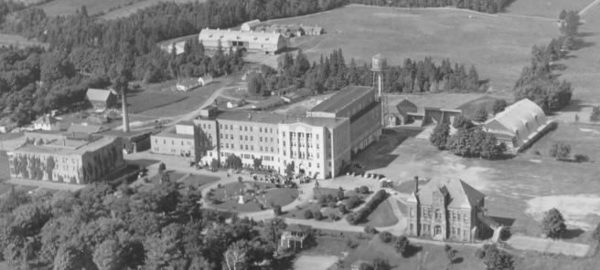 The Saint-Joseph College in Memramcook, New Brunswick circa 1940.